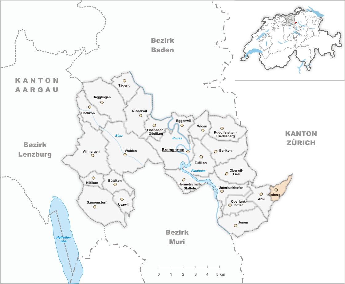 Municipality Islisberg